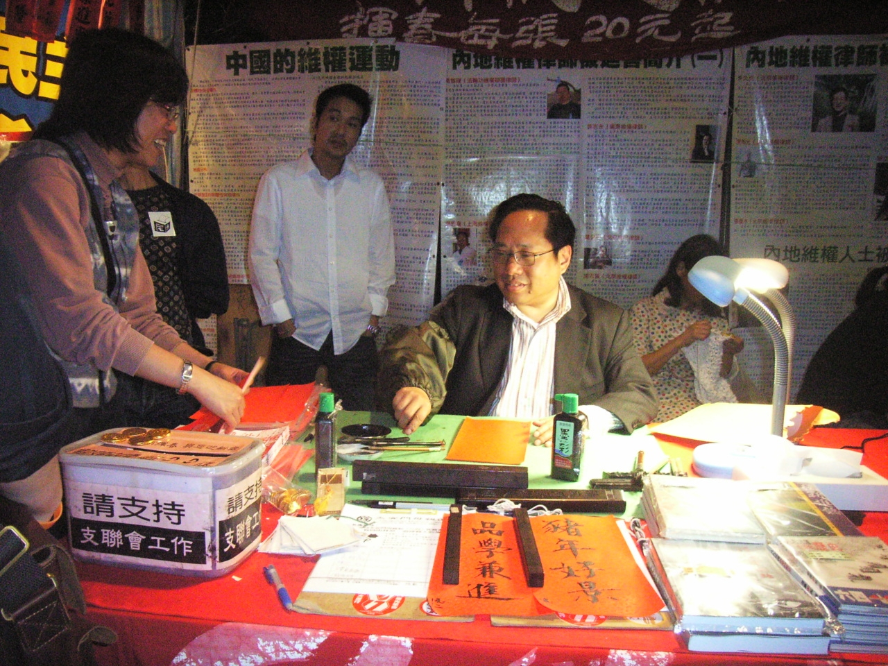 Albert Ho is a political figure in Hong Kong. User:Vday's Photo taking.